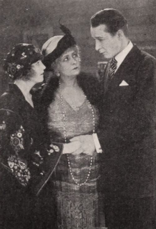 Still from the American film My Old Kentucky Home (1922) with Monte Blue, on page 57 of the May 13, 1922 Exhibitors Herald.